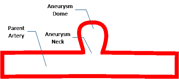 Simplistic line drawing of parent artery with aneurysm terminology